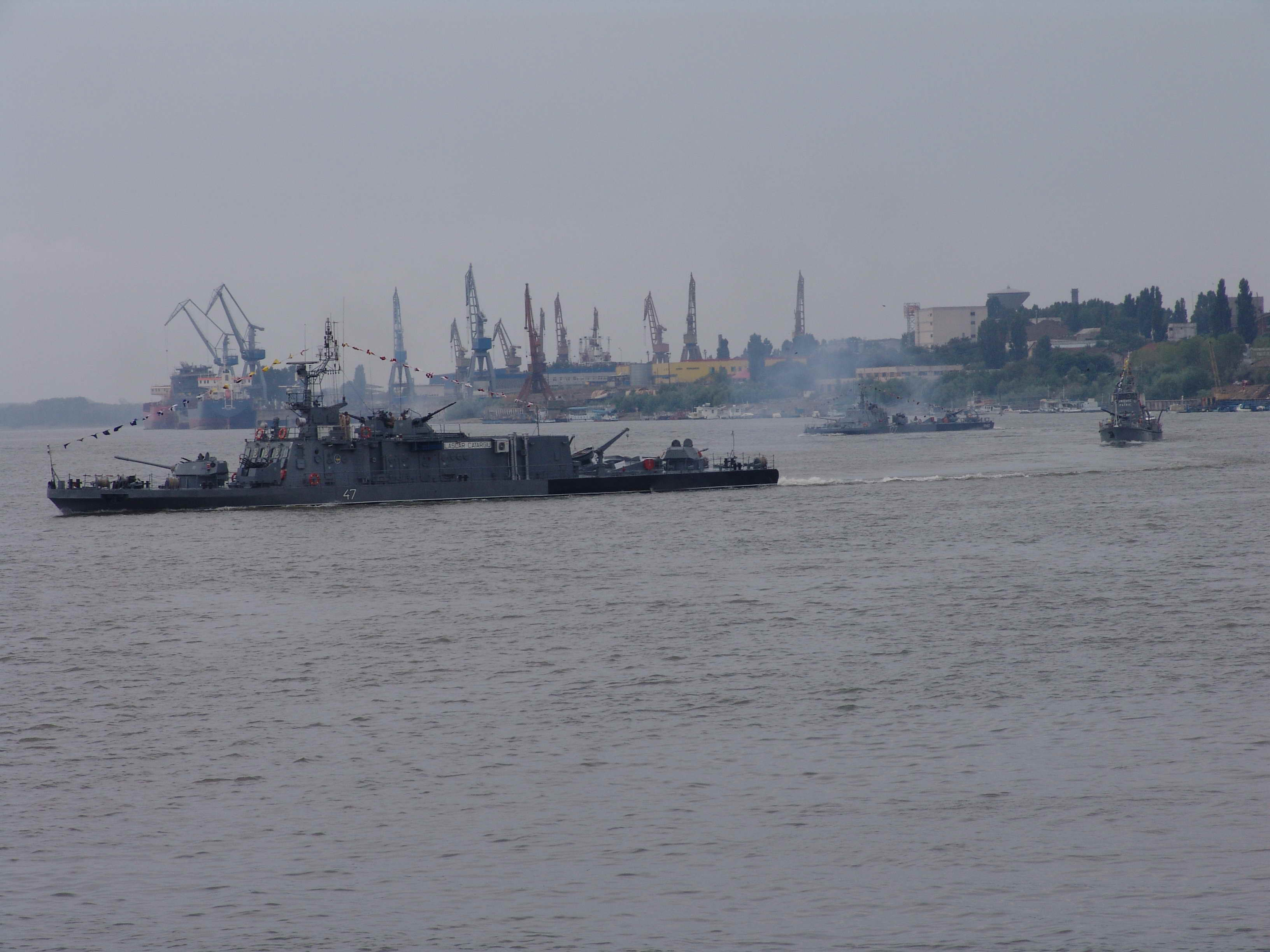 Demonstrative exercises on Danube river held during Navy's Day at Brăila. The main warship is "Lascăr Catargiu" (F-47) of the Mihail Kogălniceanu river patrol monitors class